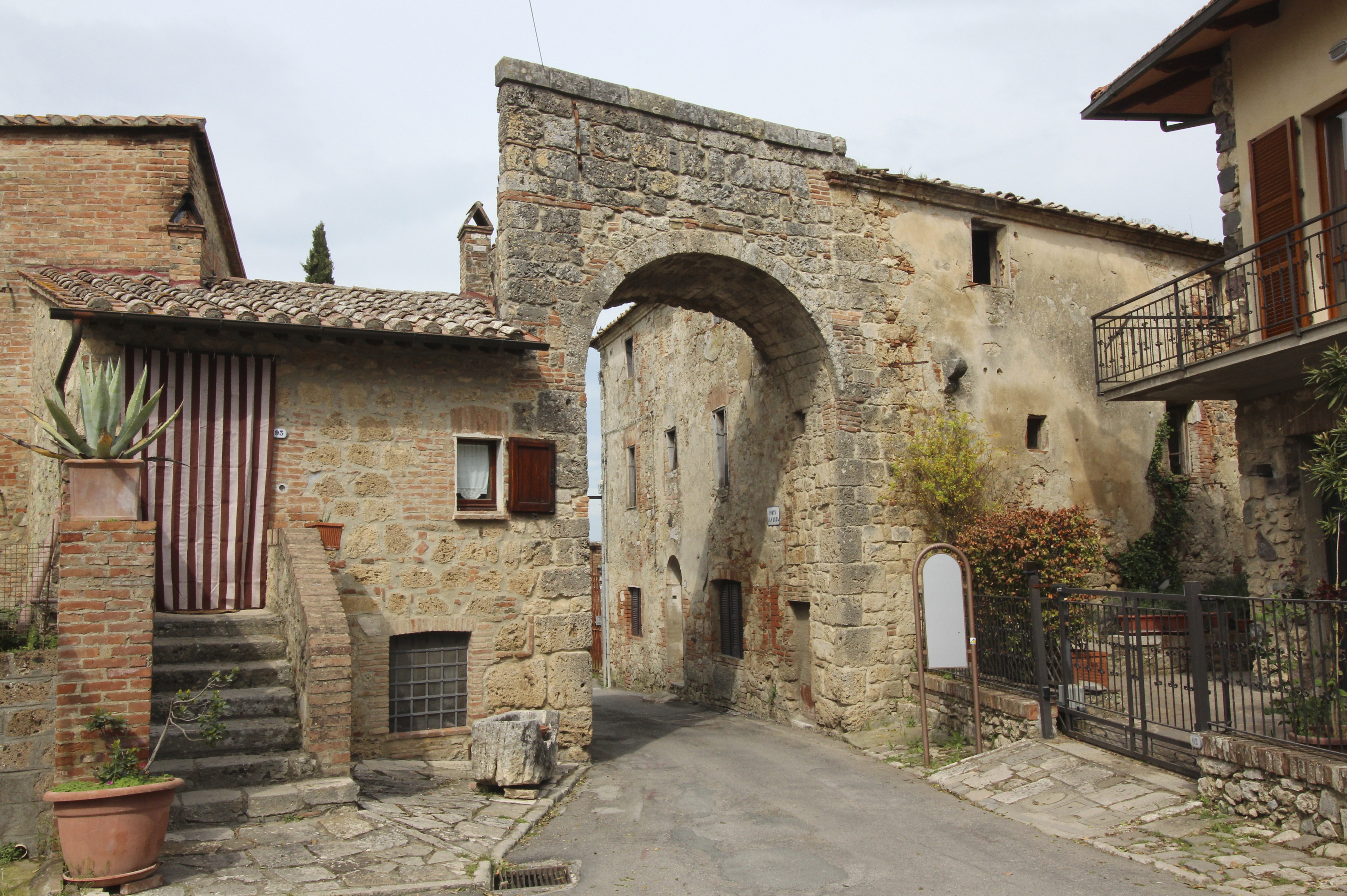 Porta Lavinia (Porta alla Vigna), City Gate in Chiusi, Province of Siena, Tuscany, Italy